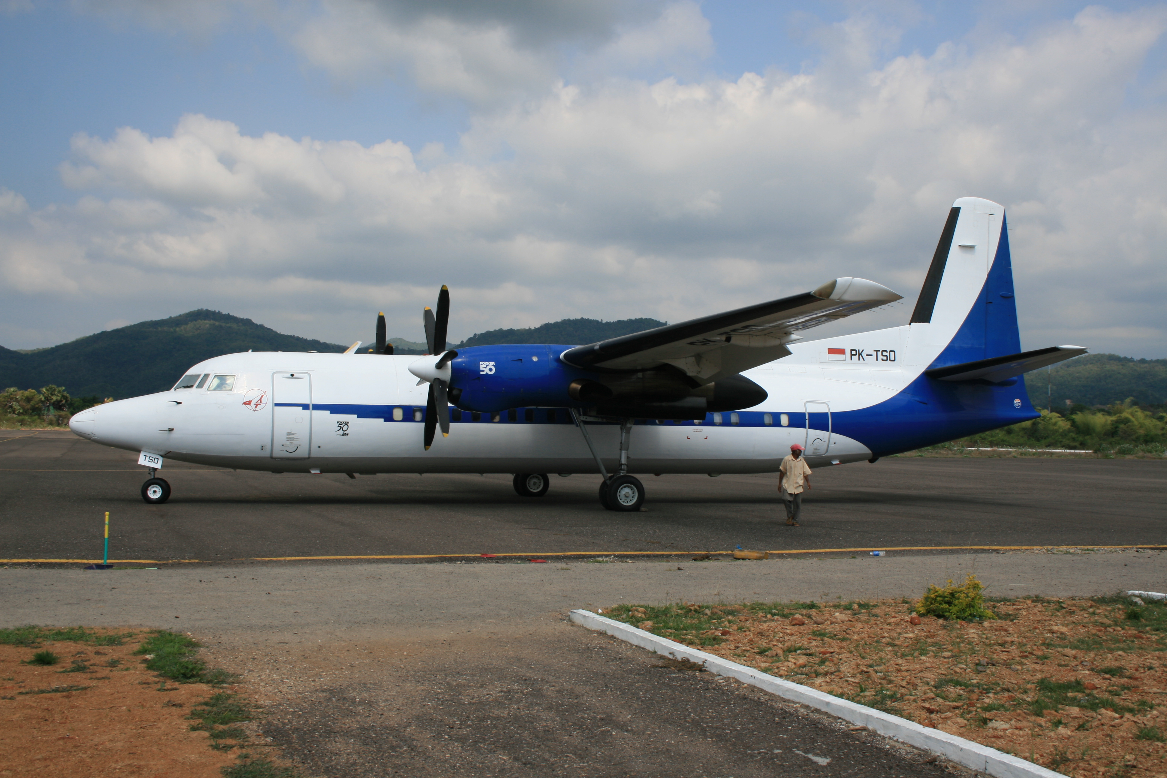 An Indonesia Air Transport, PK-TSO, Fokker 50 operating a scheduled service from Denpasar to Labuan Bajo. taken at Komodo Airport, Labuan Bajo, Flores Island, Indonesia